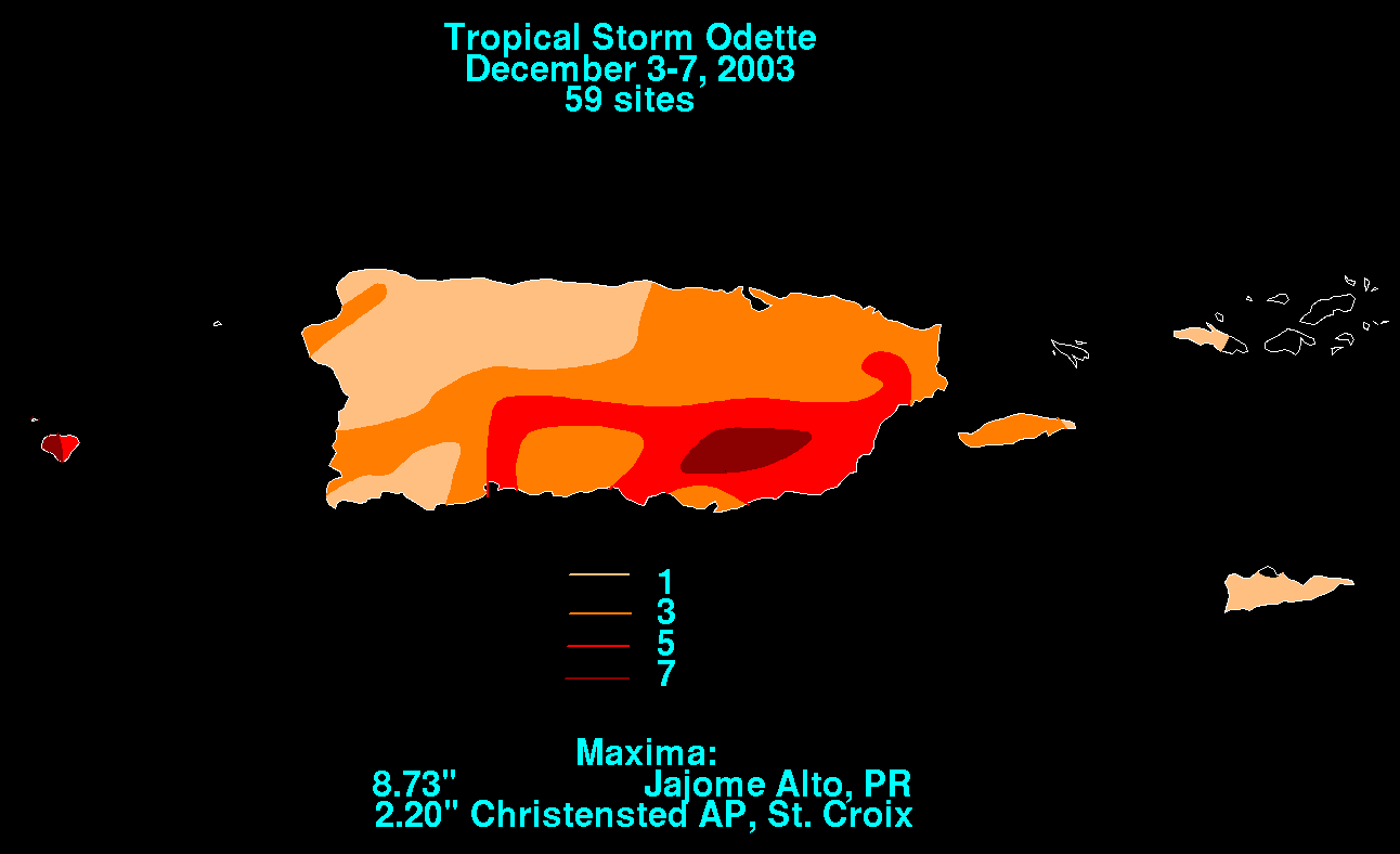 Storm total rainfall map of Tropical Storm Odette during December 2003.